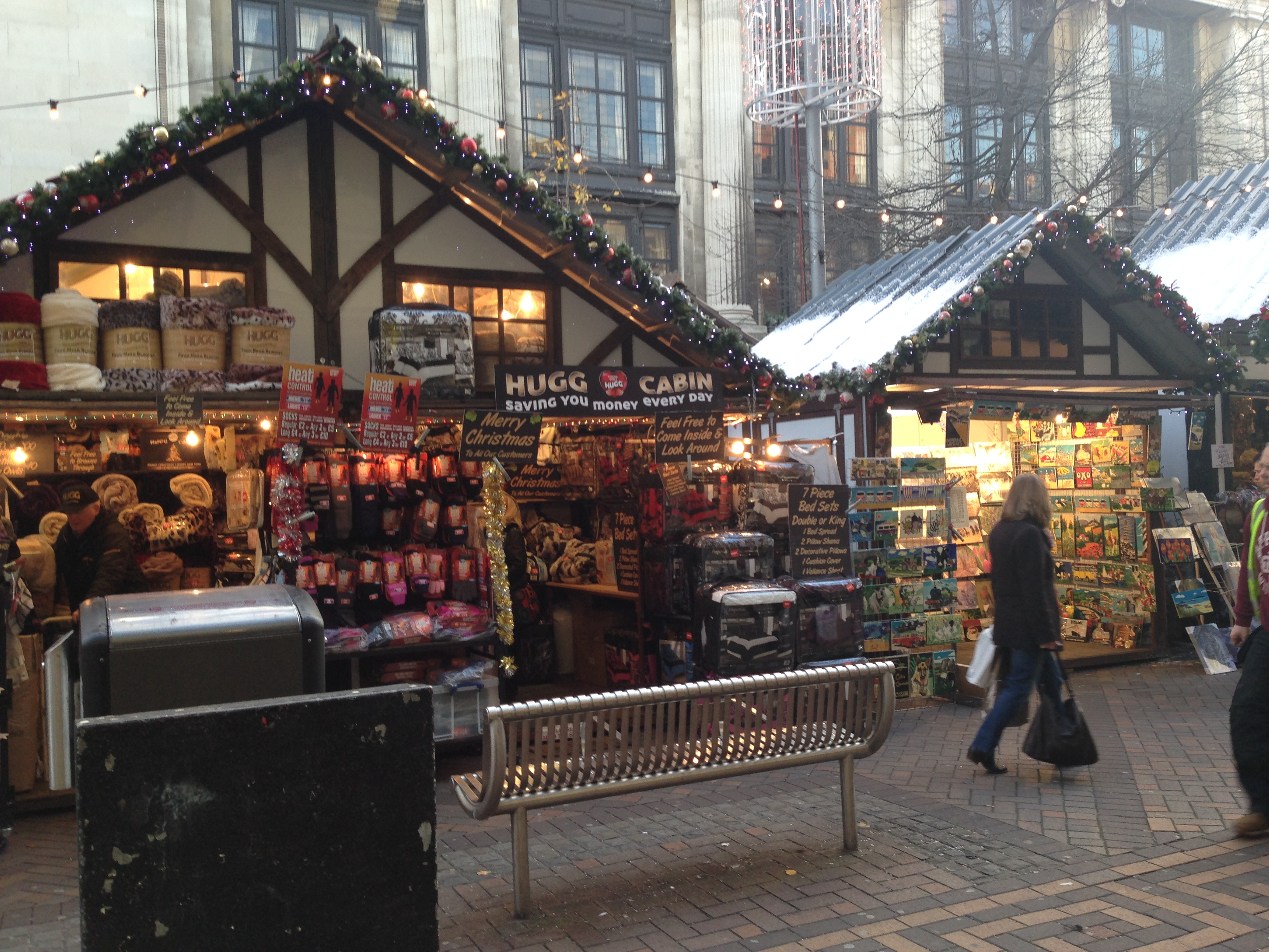 Christmas market Nottingham City Centre 2016, The image shows a temporary store in the style of a Bavarian house, which is being used as a retail shop.